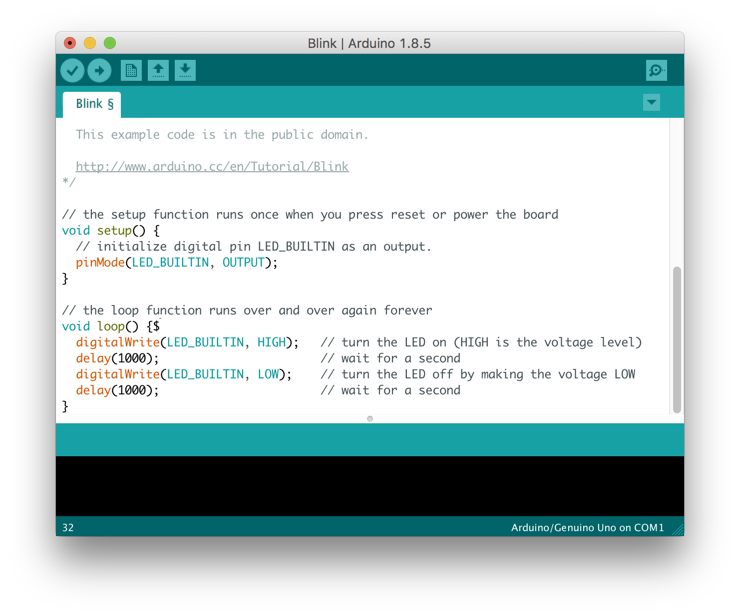 Arduino IDE 1.8.5 on macOS 10.13